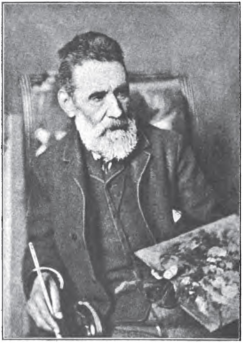 Hestia (1876) Author: Diomedes, Paulos Subject: Greek literature, Modern; Greek periodicals Publisher: Athēnēsi : s.n. Year: 1894 Possible copyright status: NOT_IN_COPYRIGHT Language: Greek Digitizing sponsor: Google Book from the collections of: Harvard University Collection: americana